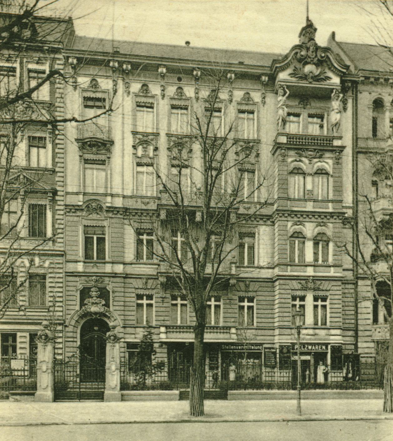 Residential building Kurfürstendamm 30. The house was built in 1892 by Otto Sohre.